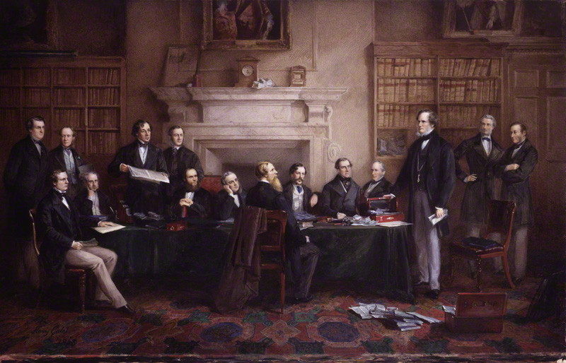 The Derby Cabinet of 1867: Benjamin Disraeli (1804-1881), Richard Temple-Grenville, 3rd Duke of Buckingham and Chandos (1823-1889), Frederic Thesiger, 1st Baron Chelmsford (1794-1878), Henry Lowry-Corry (1803–1873), Gathorne Gathorne-Hardy, 1st Earl of Cranbrook (1814-1906), Edward Smith-Stanley, 14th Earl of Derby (1799-1869), Edward Stanley, 15th Earl of Derby (1826-1893), John Pakington, 1st Baron Hampton (1799-1880), Stafford Northcote, 1st Earl of Iddesleigh (1818-1887), James Harris, 3rd Earl of Malmesbury (1807-1889), John Spencer-Churchill, 7th Duke of Marlborough (1822-1883), Richard Bourke, 6th Earl of Mayo (1822-1872), Charles Gordon-Lennox, 6th Duke of Richmond (1818-1903), John Manners, 7th Duke of Rutland (1818-1906), Spencer Horatio Walpole (1806-1898)